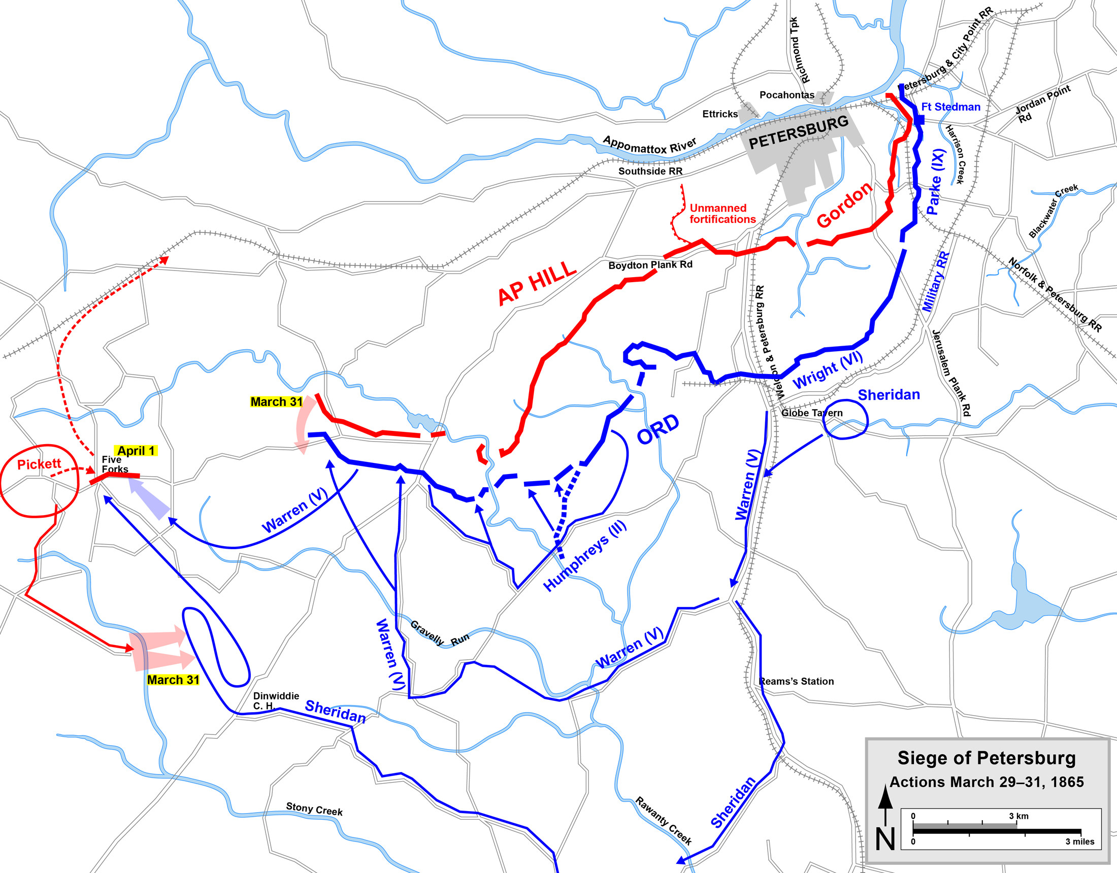 Map of the Siege of Petersburg of the American Civil War, actions March 29-31, 1865